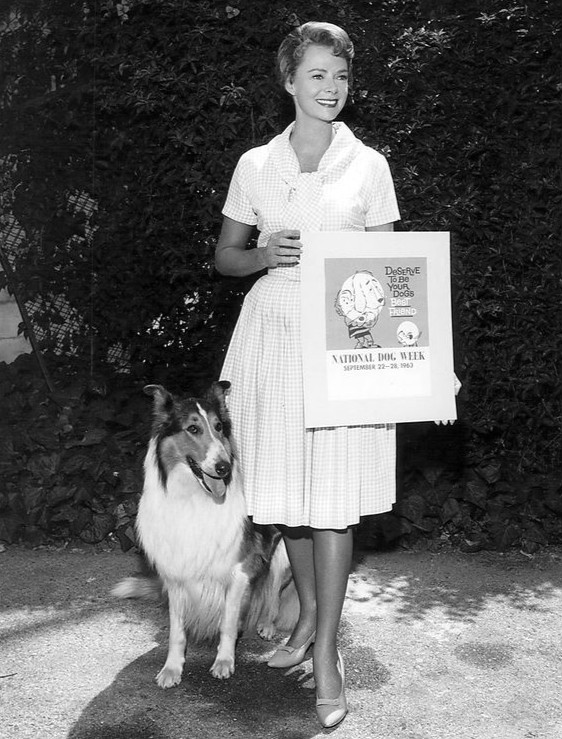 Publicity photo of actress June Lockhart and Lassie for National Dog Week, 1963. Lockhart played Ruth Martin on the television program Lassie.